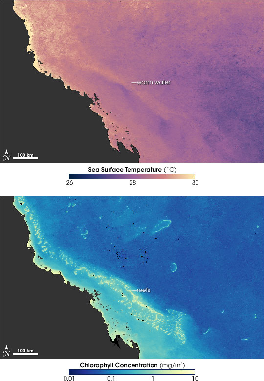 Two images showing the relationship of water temperature to coral bleaching along the Great Barrier Reef. Warm pink and yellow tones show where sea surface temperatures were warm in the top image. The warmest waters are the shallow waters over the reef near the coast, where coral bleaching was most severe in the summer. The lower image shows chlorophyll concentrations, where high concentrations (yellow) generally point to a high concentration of phytoplankton in surface waters of the ocean. In this image, the bright yellow dots actually represent the coral reefs, and not surface phytoplankton.